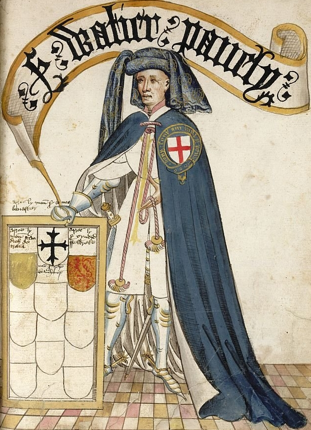 Walter Paveley KG from the Bruges Garter Book, 1430/1440, BL Stowe 594